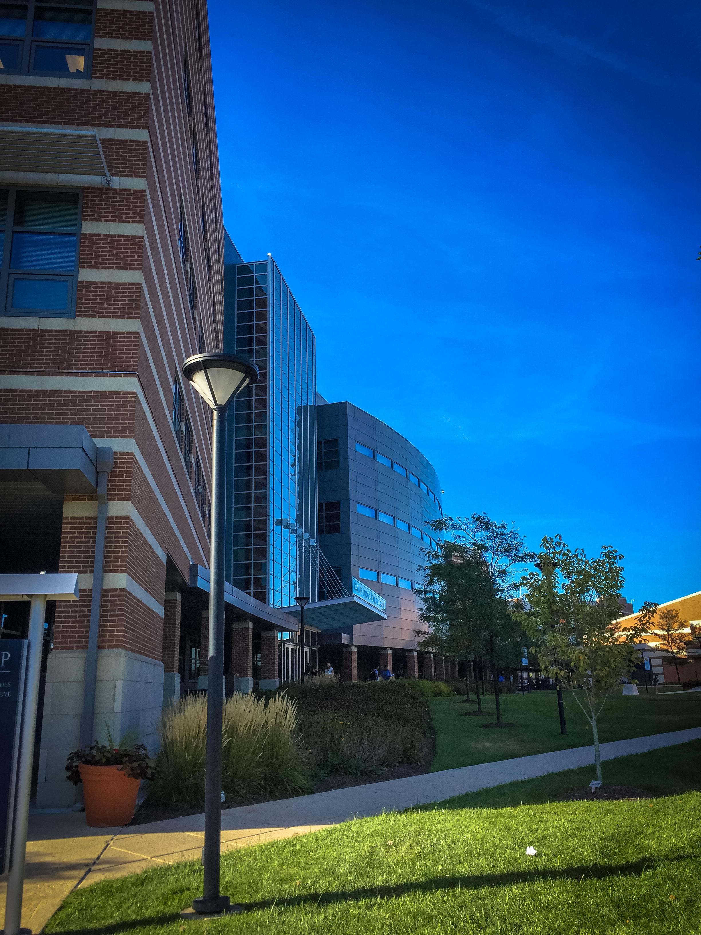 2015.09.15 UMD Shady Grove HLTH 471 - Health of Transgender Women